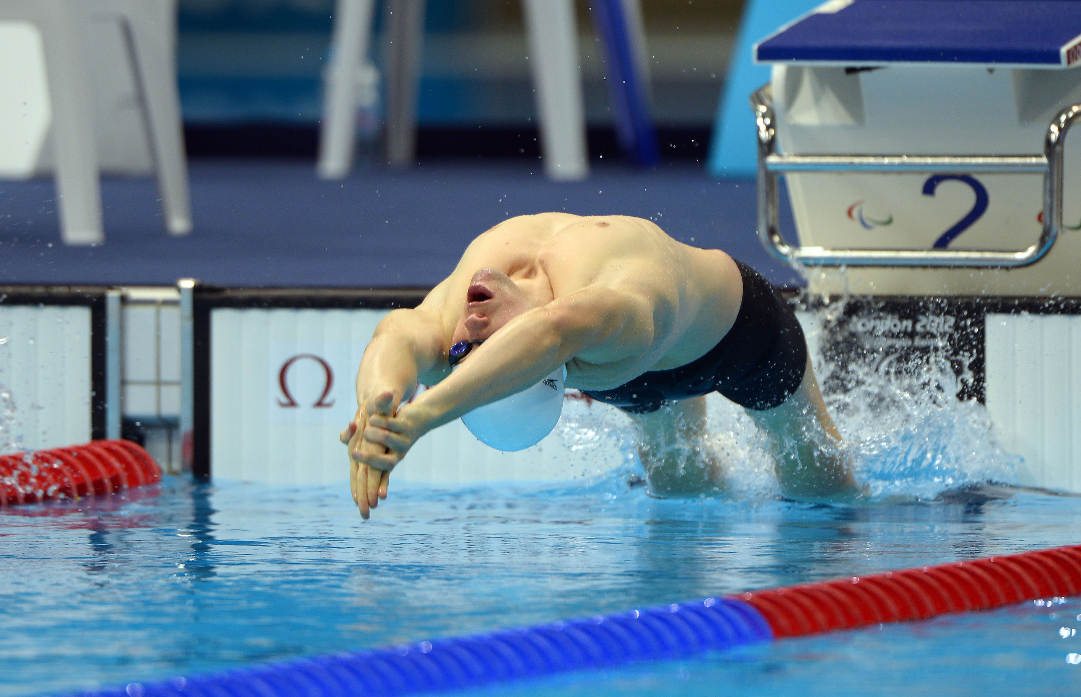 Photograph of Australian Paralympic team member Daniel Fox at the 2012 Summer Paralympics in London